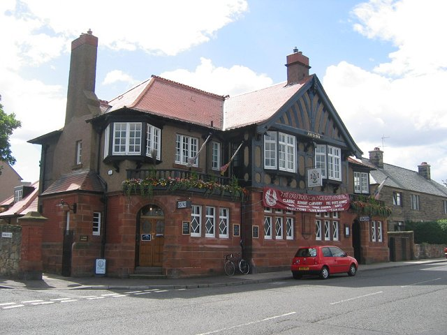 The Goth. The Prestoungrange Gothenburg. I know pubs get relegated to the supporting cast on here, but this is quite important in the social history of Scotland, especially mining. The Gothenburgs were pubs based on a Swedish model, that acted as social centres for mining communities and encouraged sensible drinking. There are a few left and this one dating from 1909 is a beauty. Worth a visit for the art nouveau interior, then the lovely beer brewed round the back, bringing back the Fowlers brand to Prestonpans.